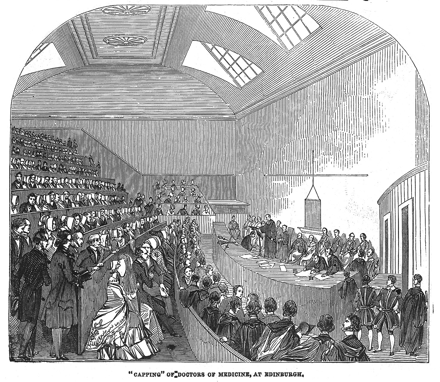 Doctors receiving their degrees in a degree ceremony, Edinburgh. Wood engraving, 1845. Wellcome Images